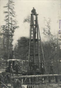 Pile driving crew